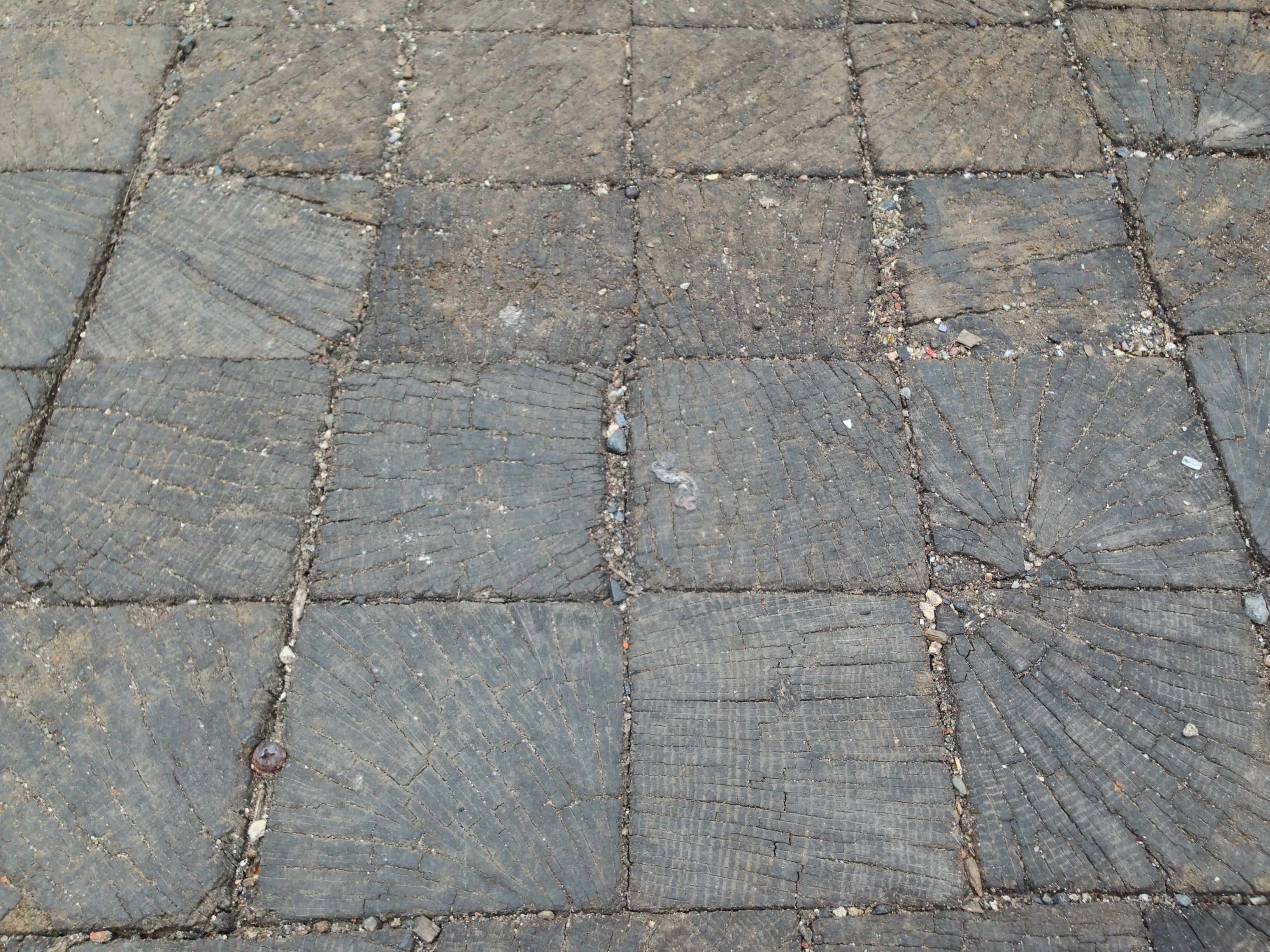 Wood block pavement at the 200 block of South Camac Street in Philadelphia.